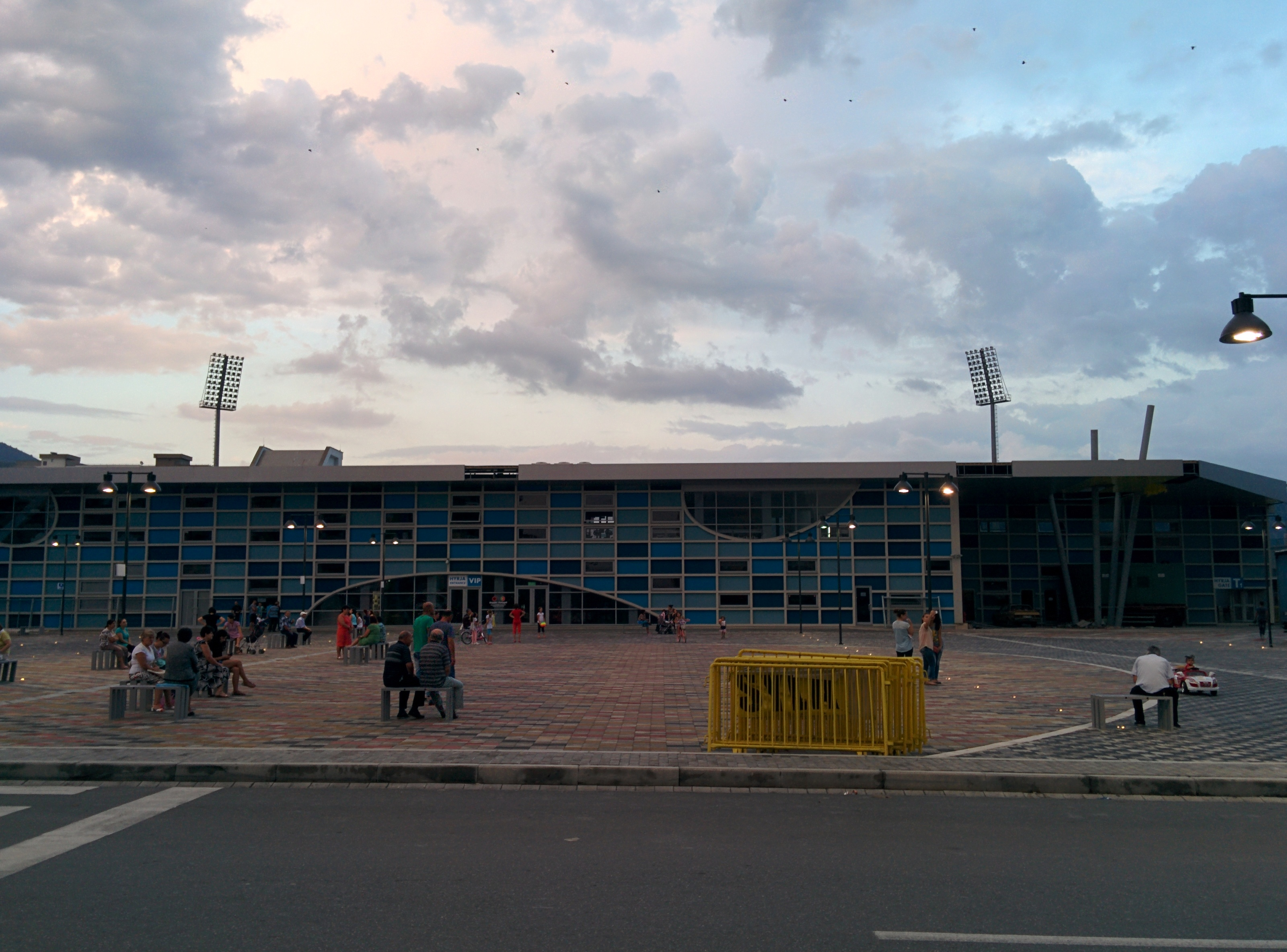 View from the main entrance of the stadium of Elbasan, Albania. The venue was renovated in 2014 and hosts some of the games of the Albanian national team and of the local team.